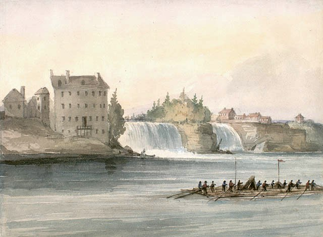 Rideau Falls at Bytown, Canada West